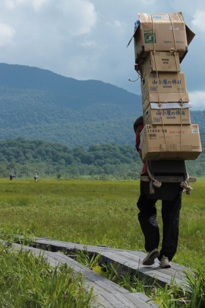 Taken with picplz.